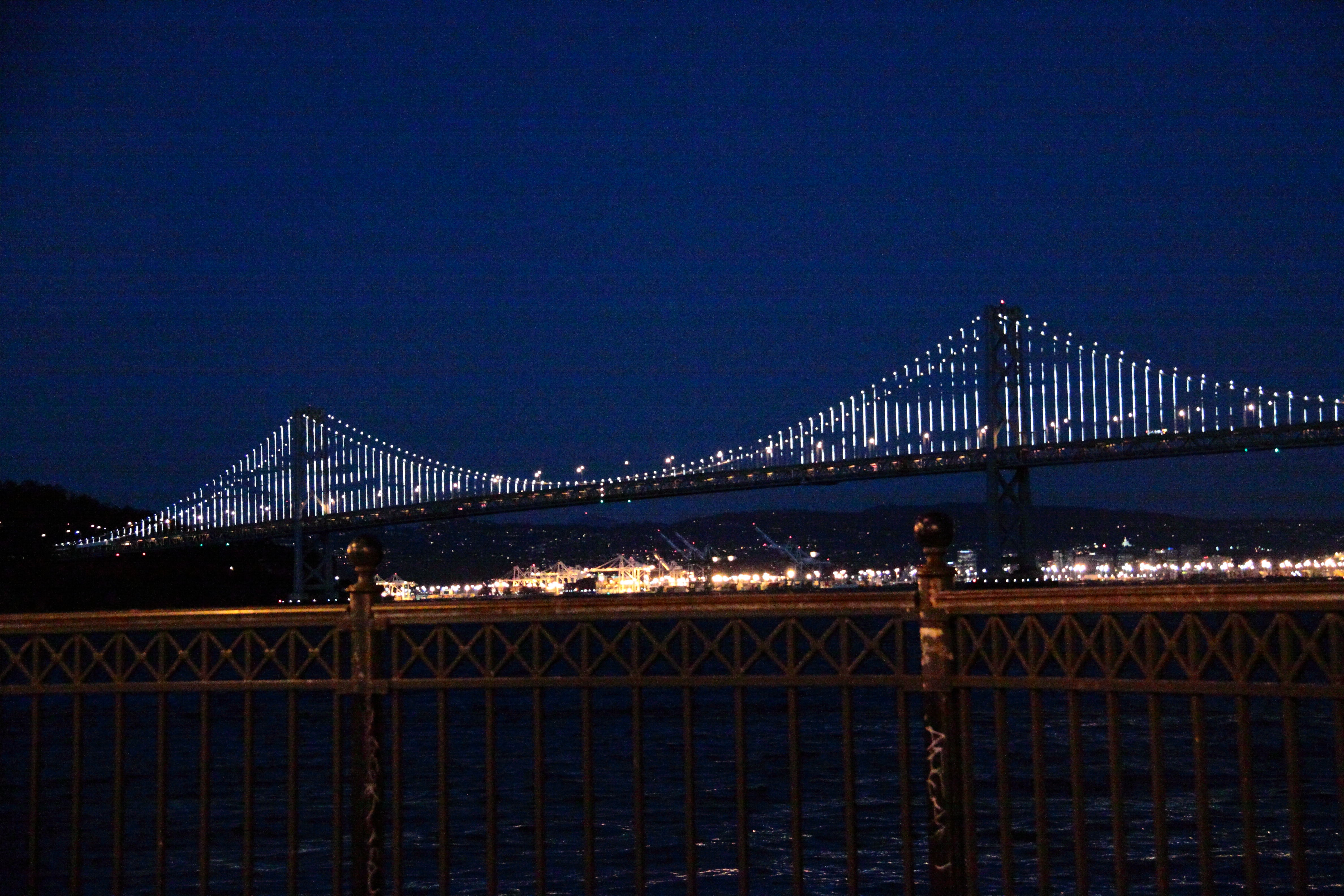 Photo of bay bridge lights taken from the pier next to the ferry building.